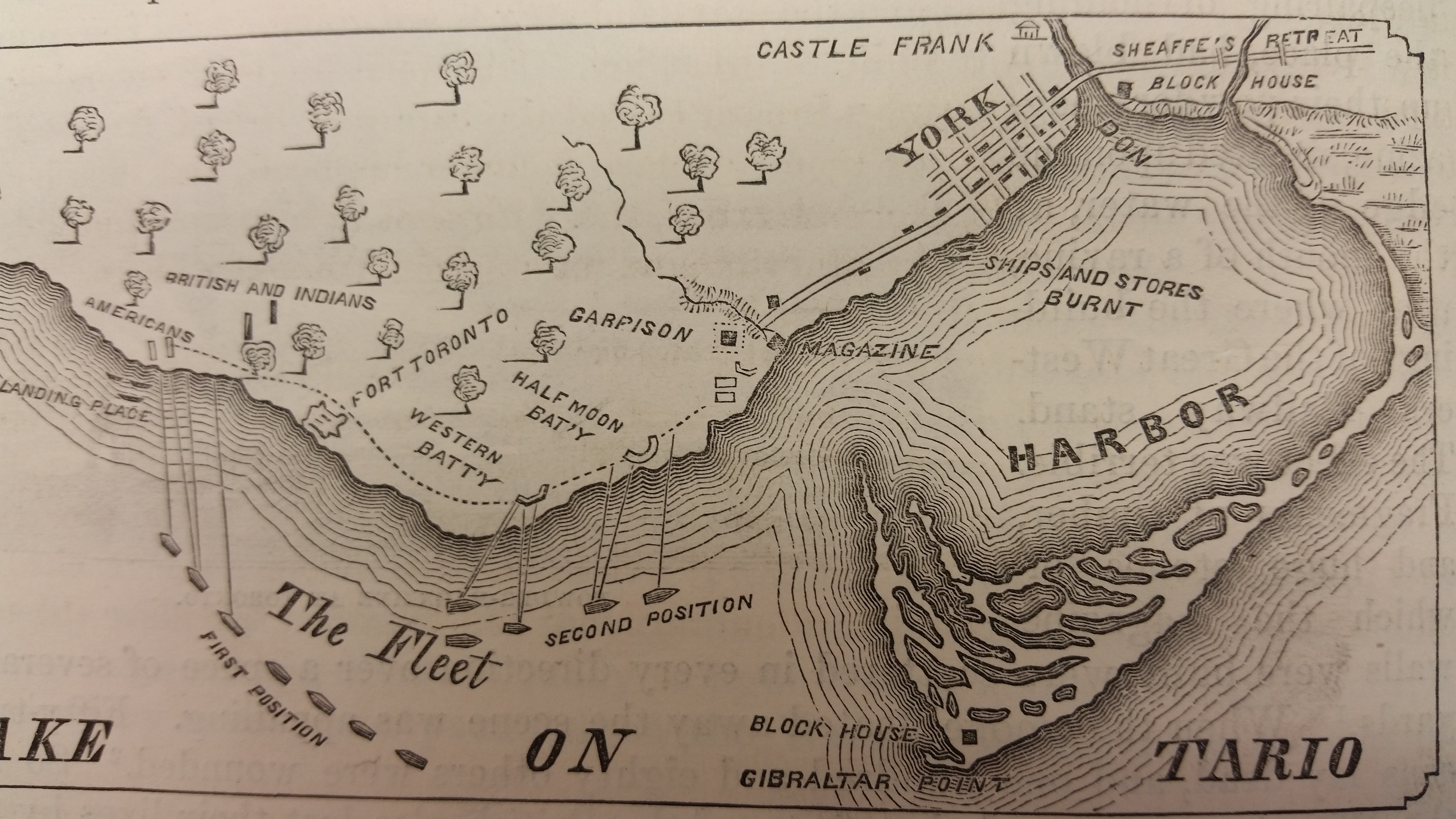 Battle of York II